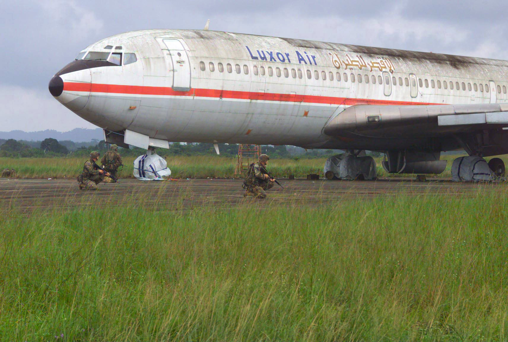 Armed US Marines assigned to Lima/Battery, Battalion Landing Team 1st Battalion, 8th Marine Regiment, attached to the 26th Marine Expeditionary Unit Special Operations Capable, move into position around a Egyptian Luxor Air commercial airliner (Boeing 707), as they secure the runway at Roberts International Airport, Liberia, during Joint Task Force Liberia. (Released to Public)